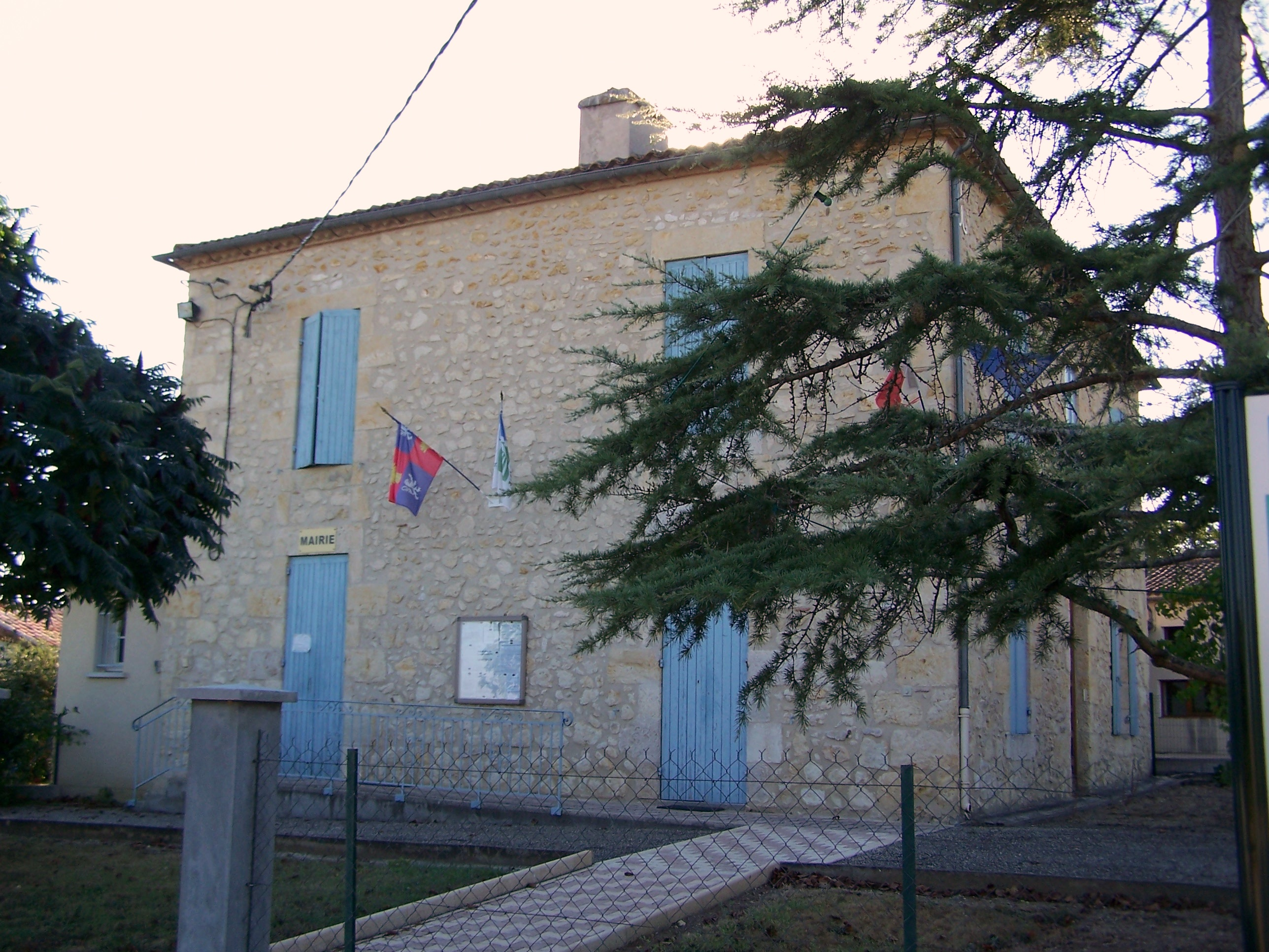 Town hall of Ruffiac (Gironde, France)